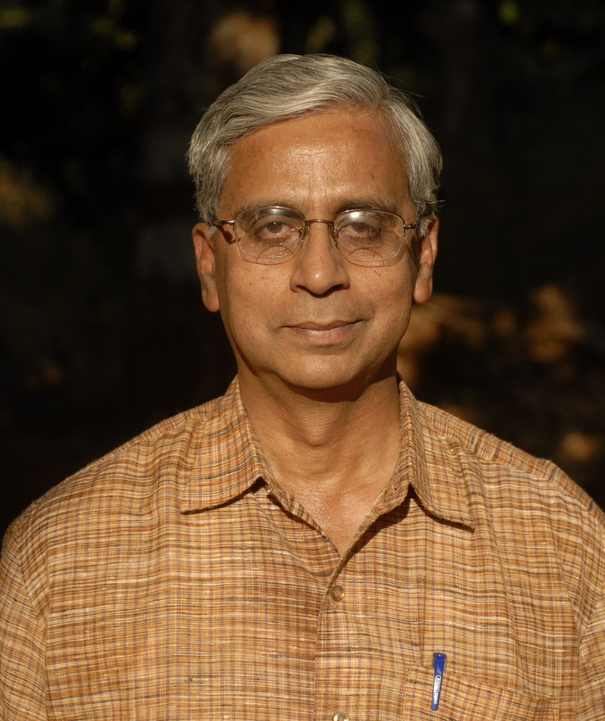 A photograph of Dr. Sudarshan dated 2007